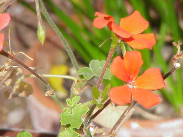 Species: Pelargonium tongaense Family: Geraniaceae Image No. 2